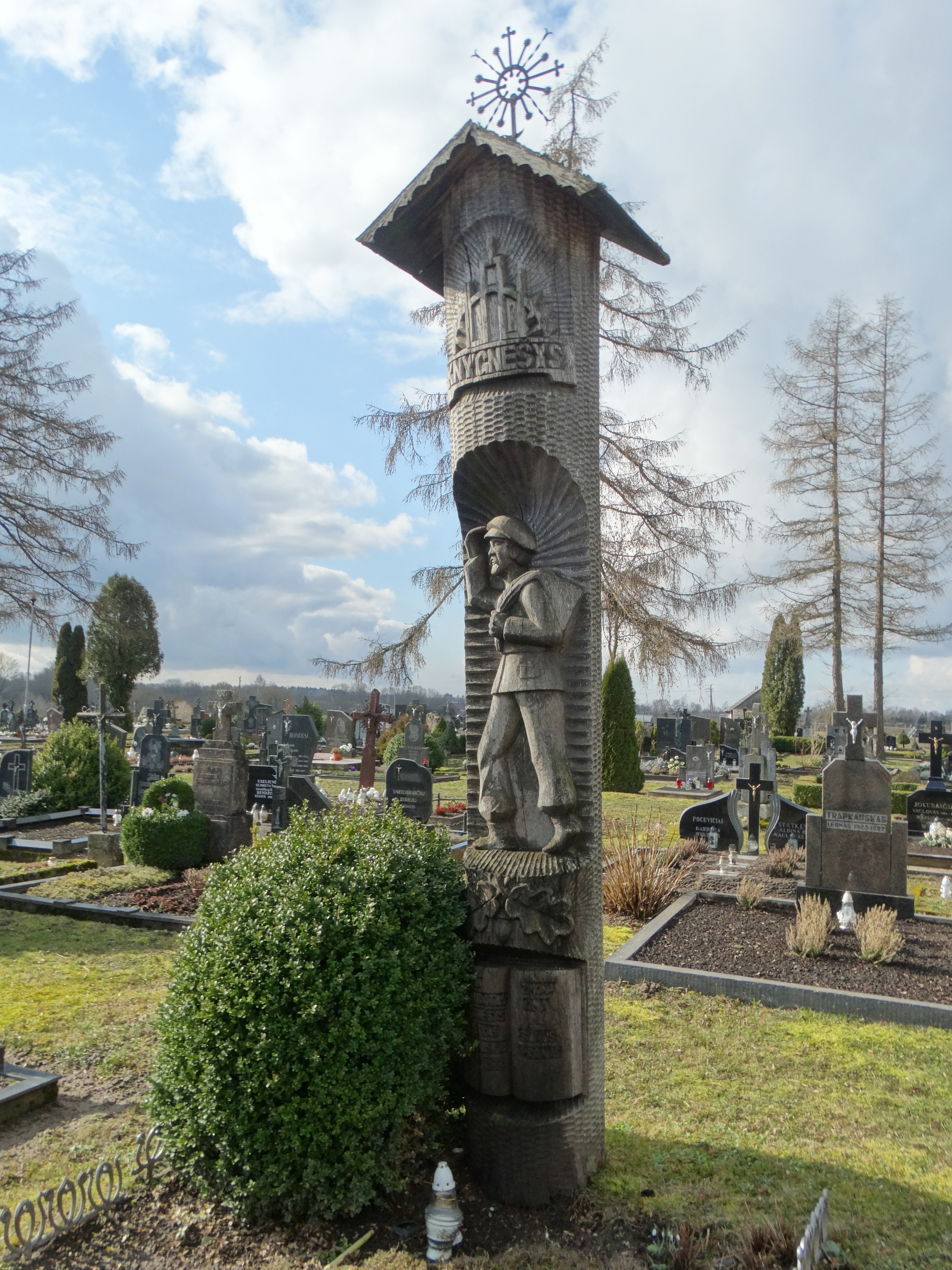 Petras Kavaliauskas, book carrier, tomb, Kvėdarna, Šilalė District, Lithuania